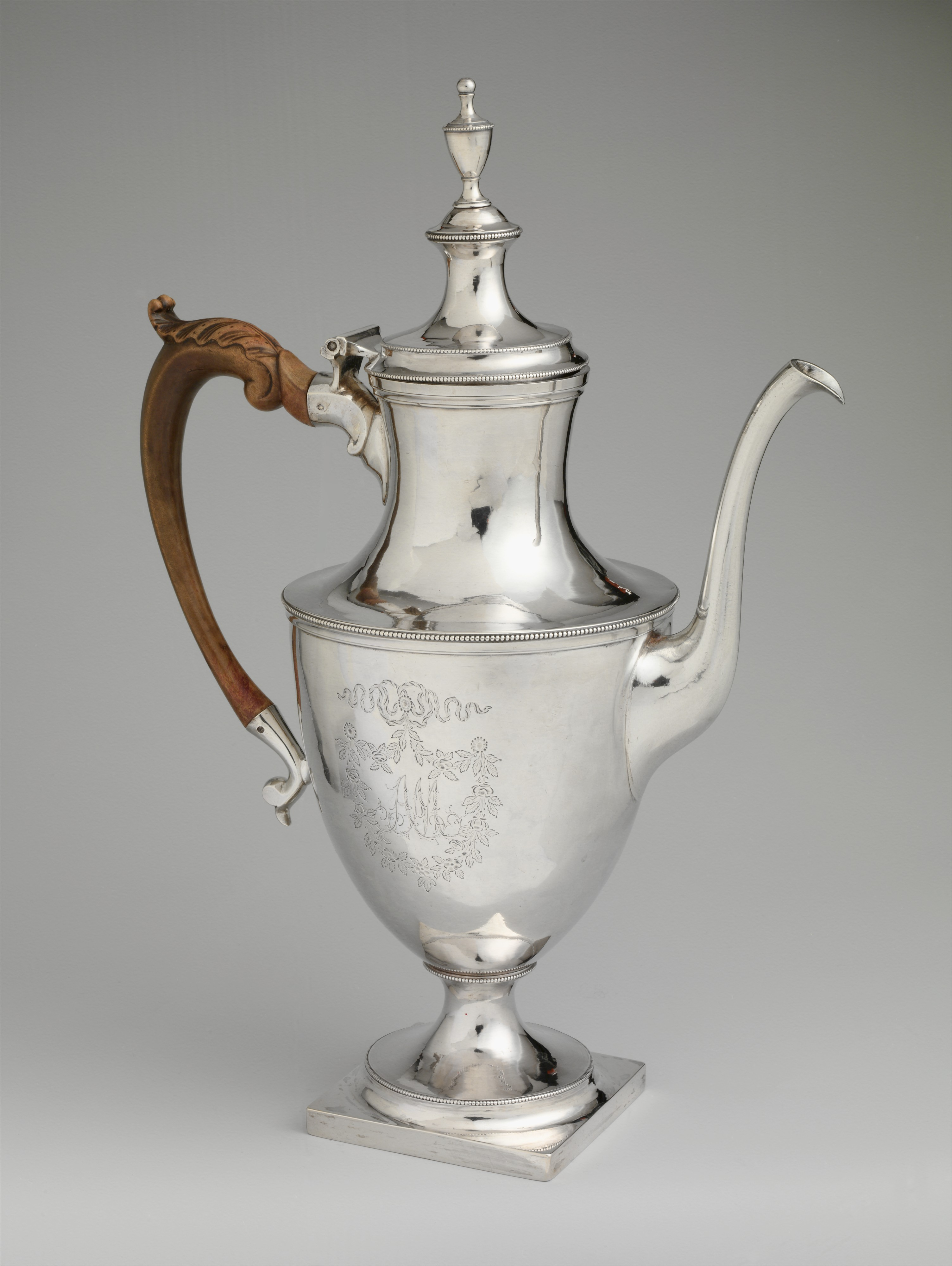 American; Coffeepot; Silver